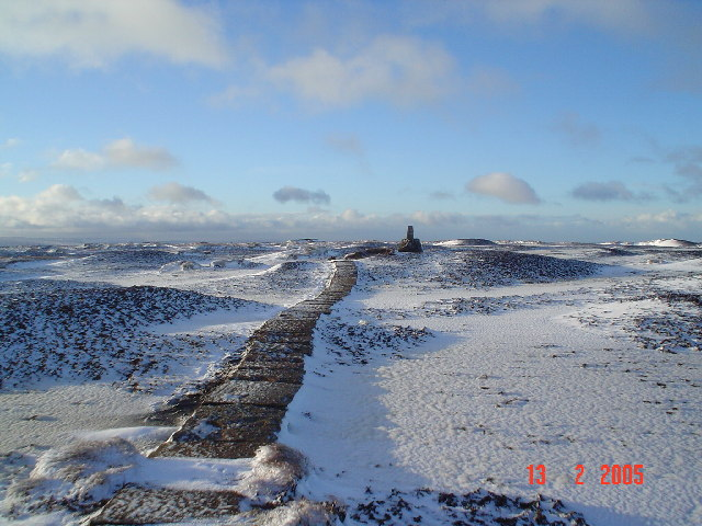 Black Hill summit. The summit of Black Hill in the Pennines, near Holmfirth, is one of the bleakest places I know. When not covered in snow the hill is one huge peat bog. The pavement is a recent addition. Prior to this, the use of a compass was essential on foggy days to find the top.